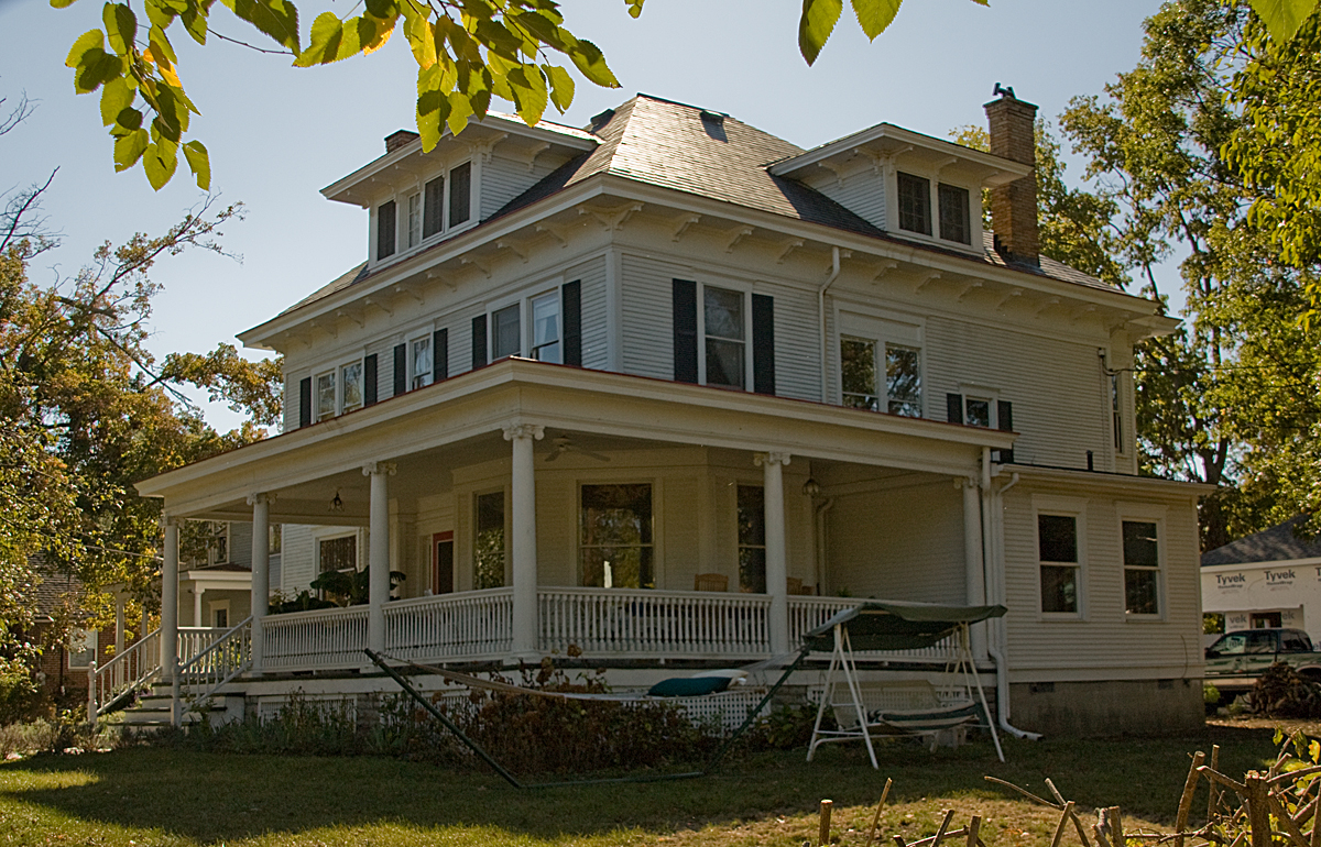 Charles H. Moore house in Wyoming, Oh. Photo by Greg Hume